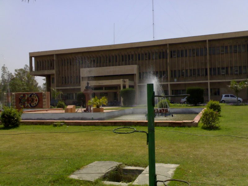 This is a front view of the administrative office of CCS HAU, Hisar. It is also known by the name Fletcher Bhawan.